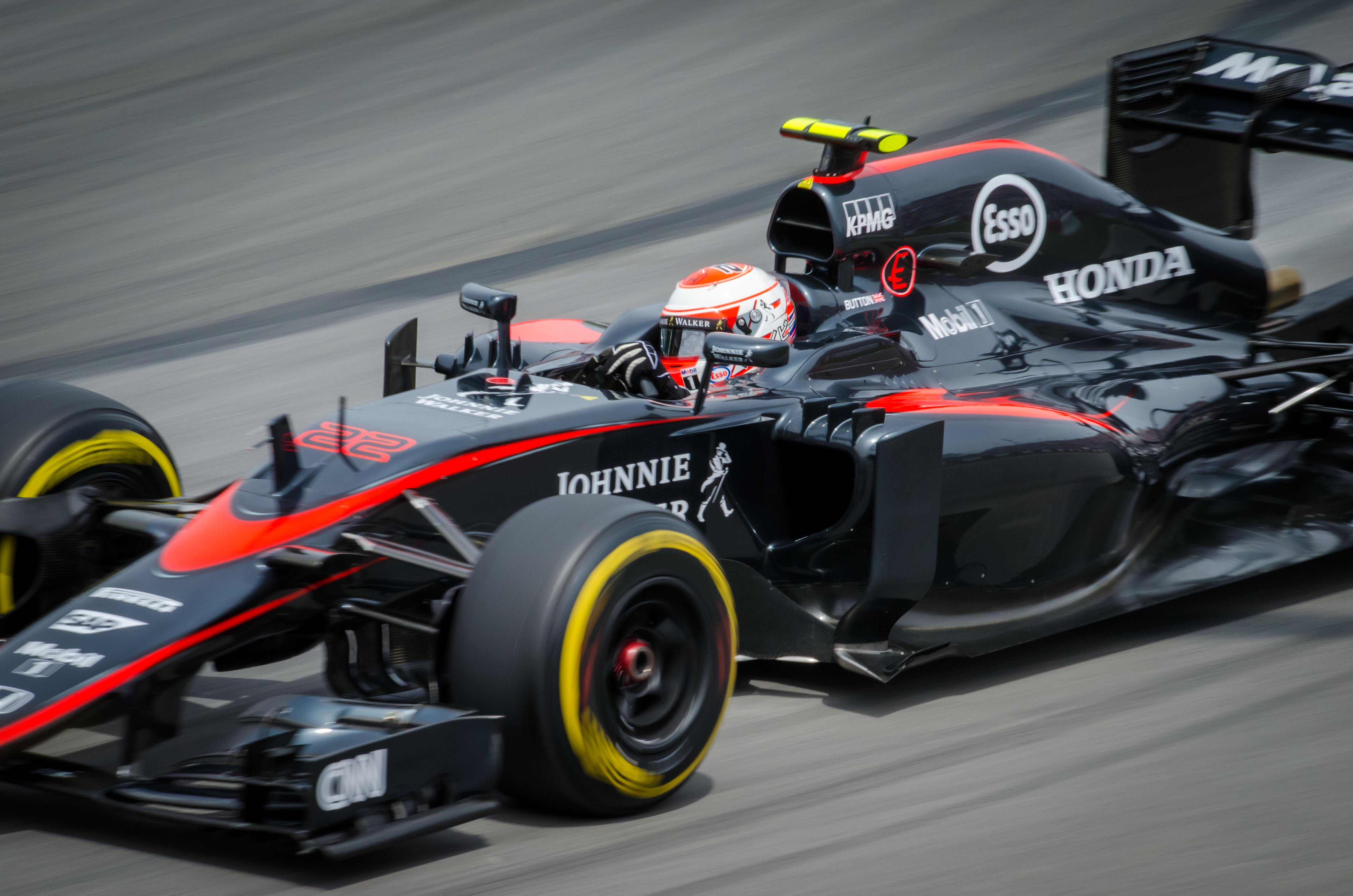 Jenson Button at the 2015 Canadian Grand Prix